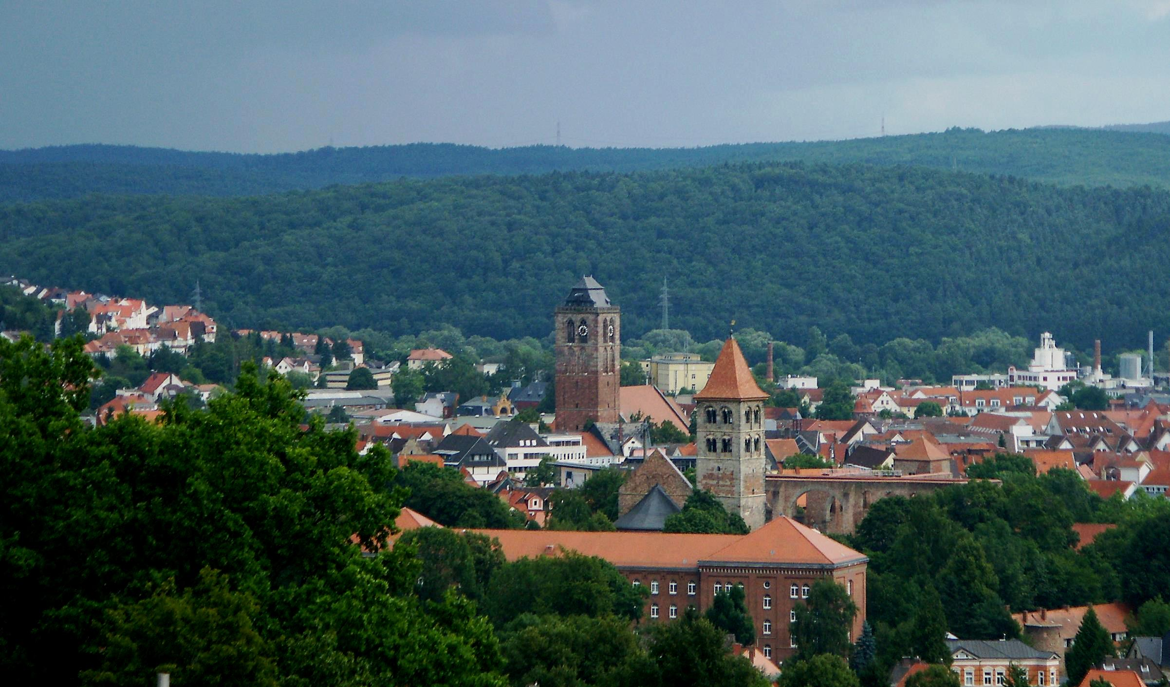 Panoramic view of Old Town Bad Hersfeld. Taken from Tageberg